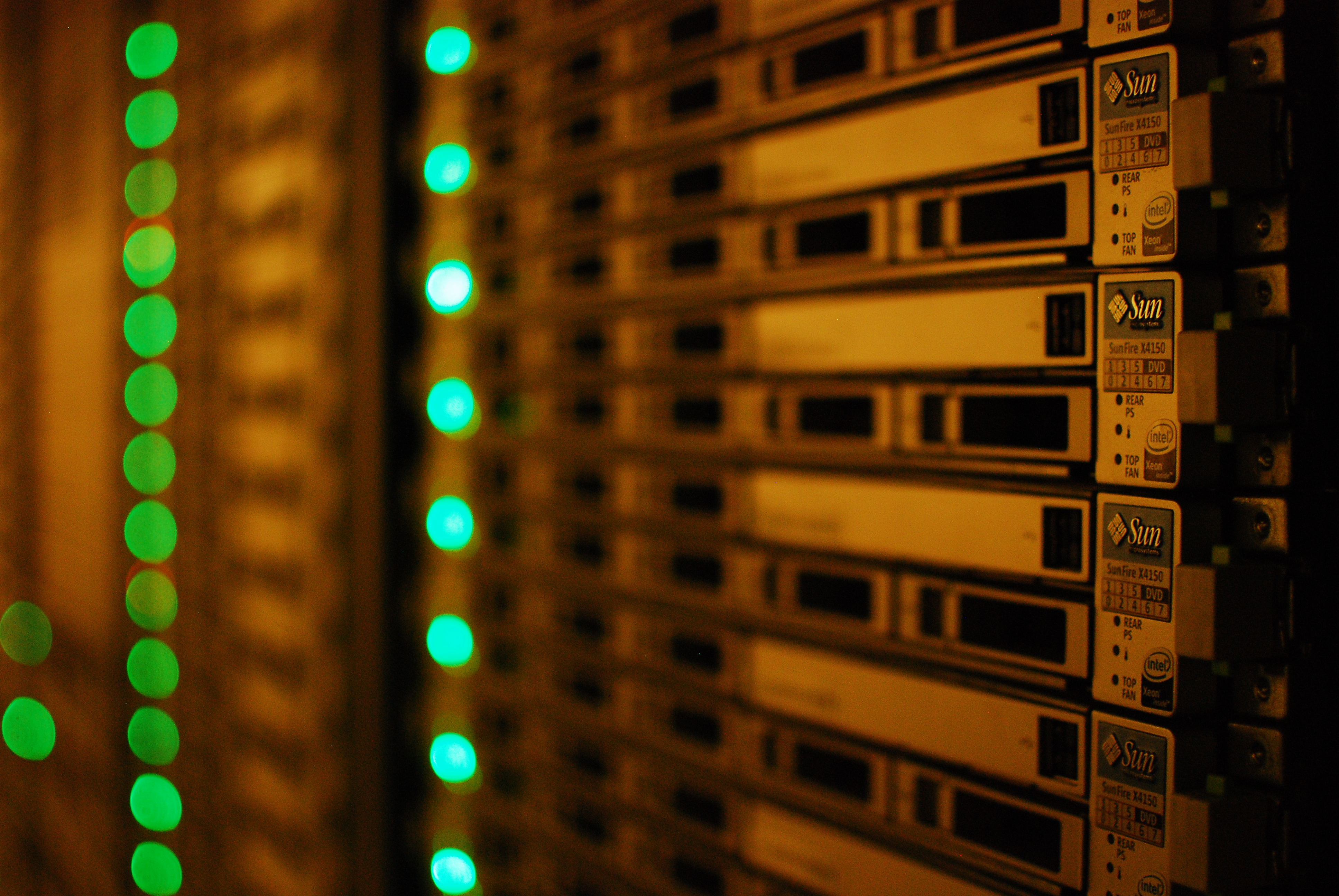 Sun Microsystems SunFire X4150 servers in a cluster owned by NCC (Núcleo de Computação Científica).